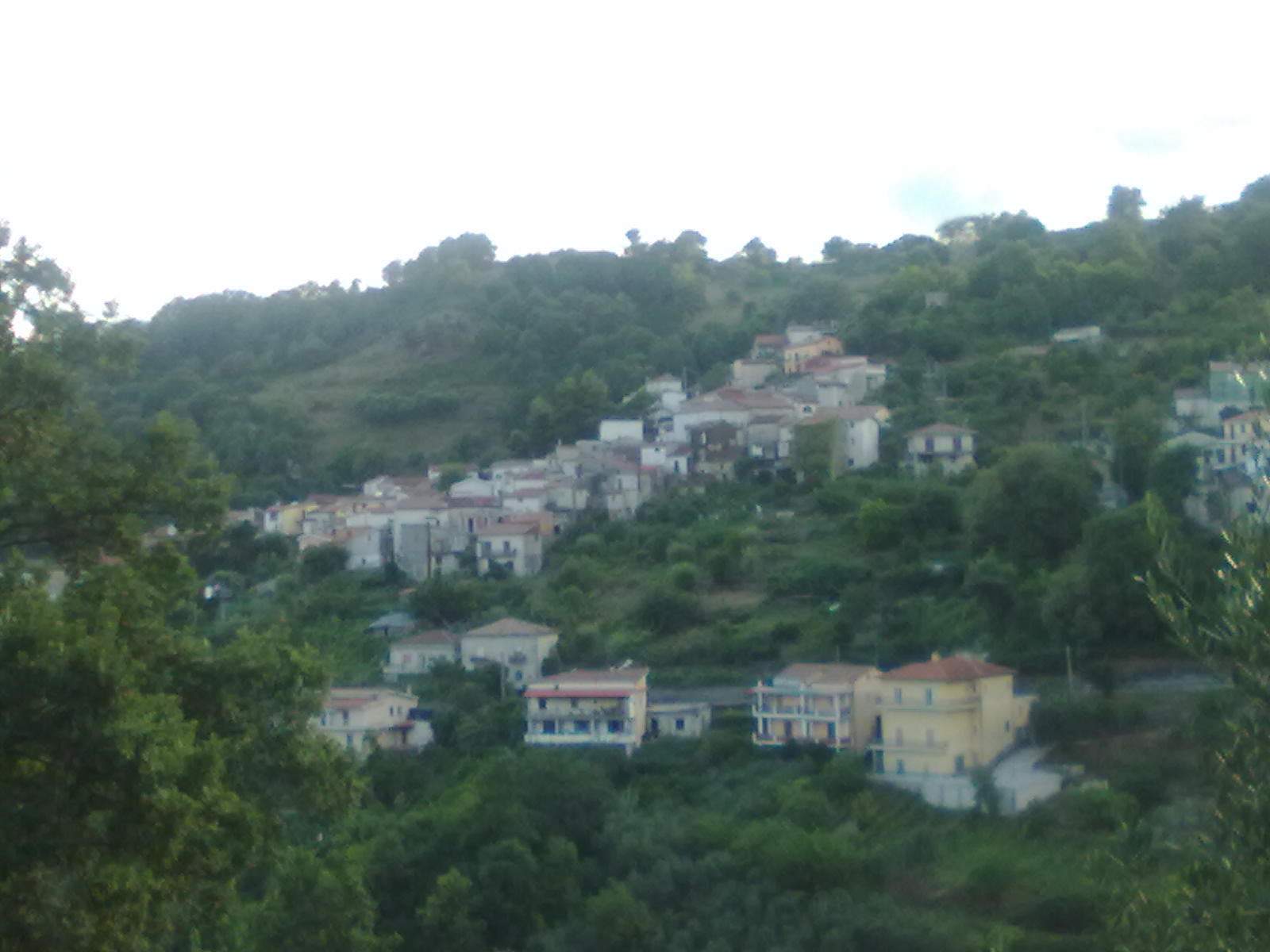 View of Santa Marina